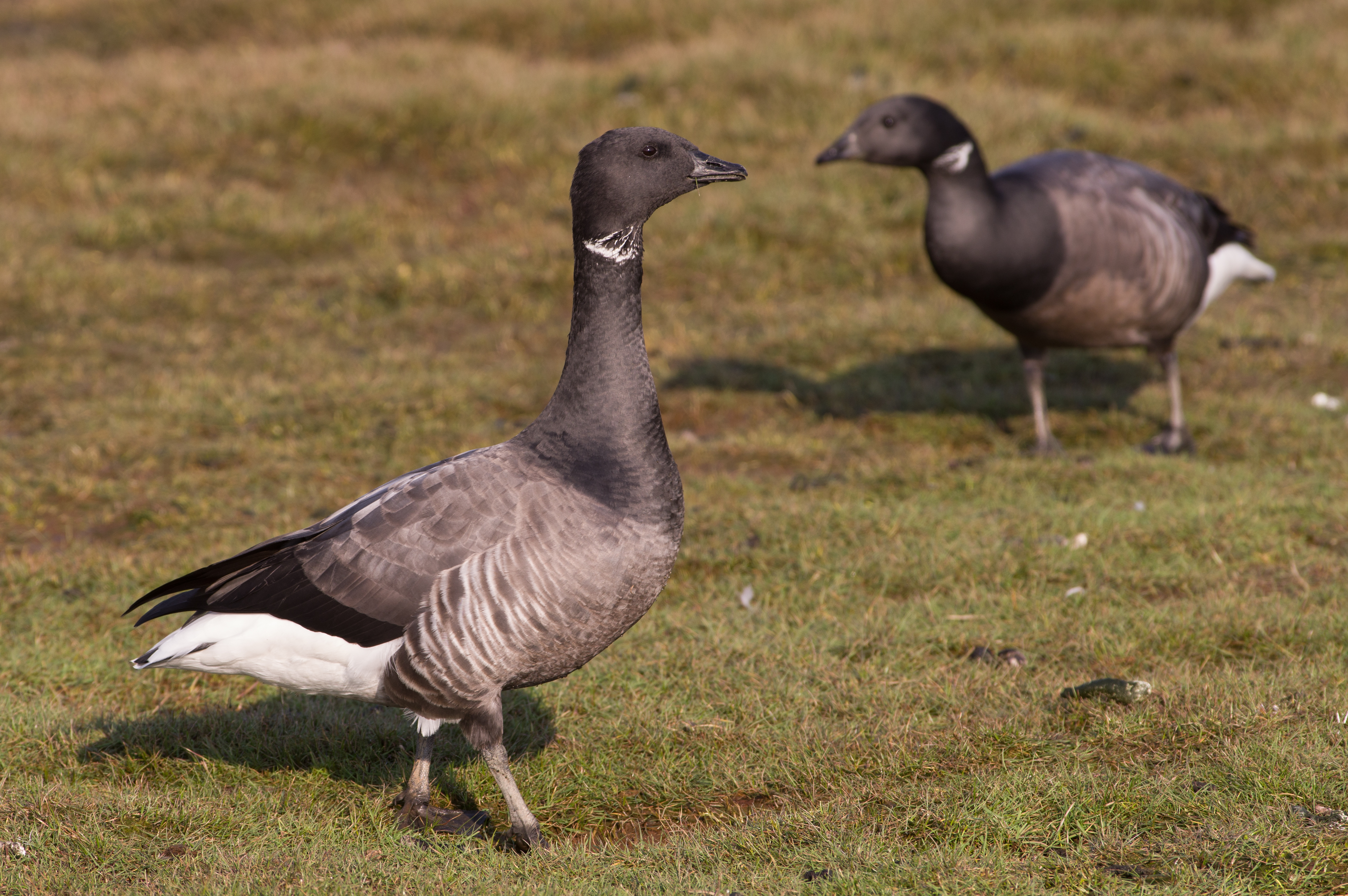 Brent geese (Branta bernicla bernicla), at the North Sea island of Amrum